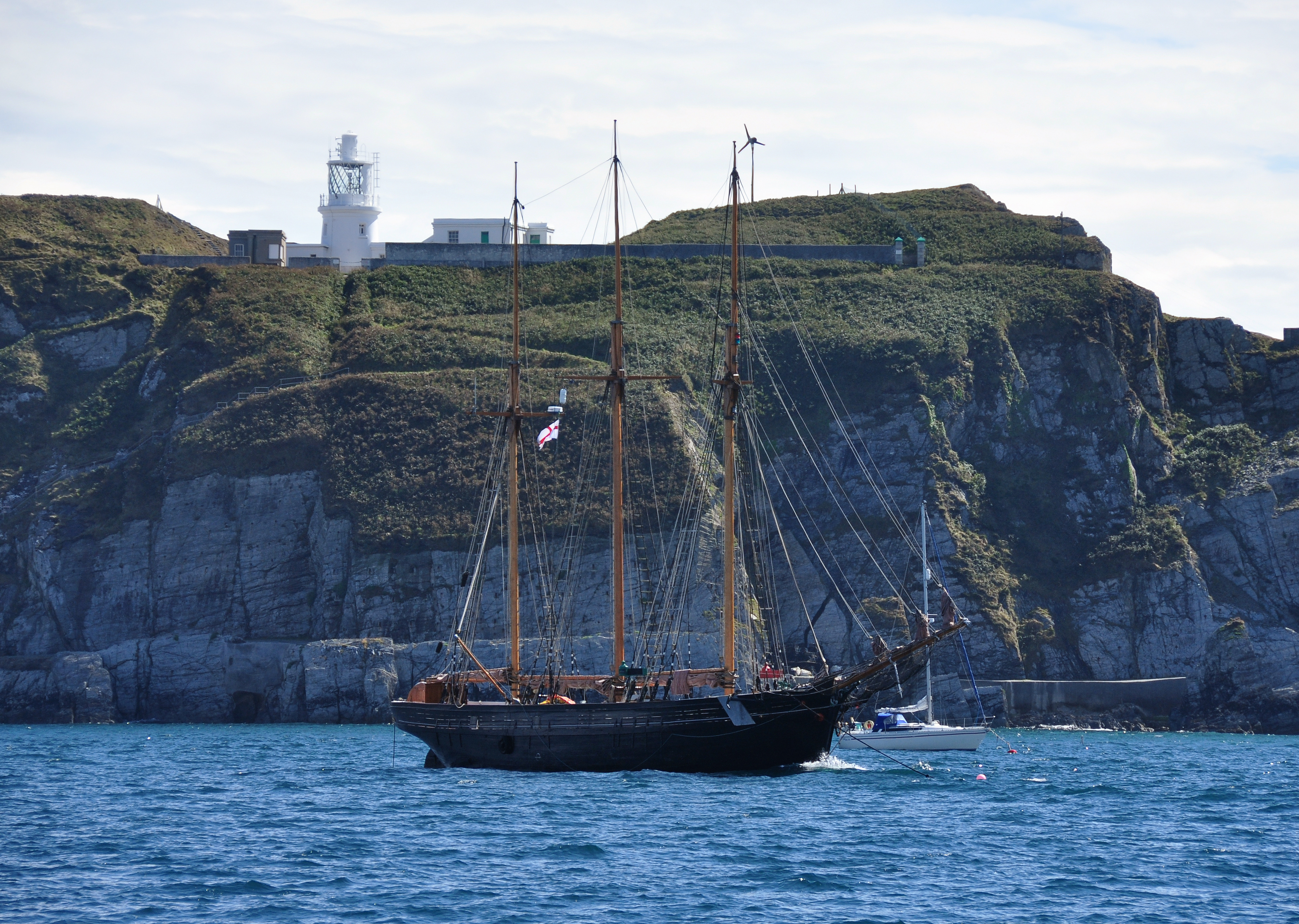 The Kathleen and May off the coast of Lundy. The South Lighthouse is visible in the background.